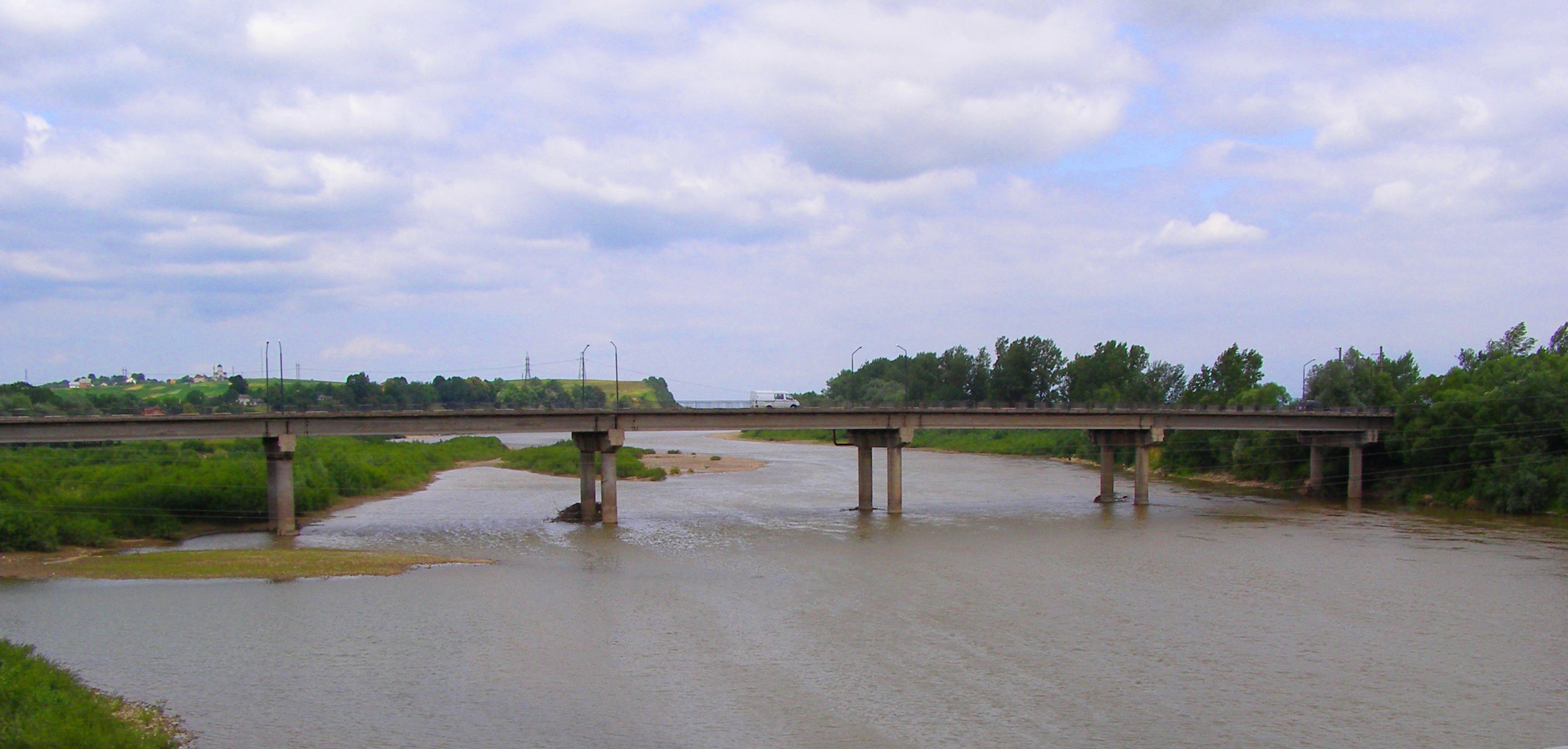 Dniester in Halych, west Ukraine.